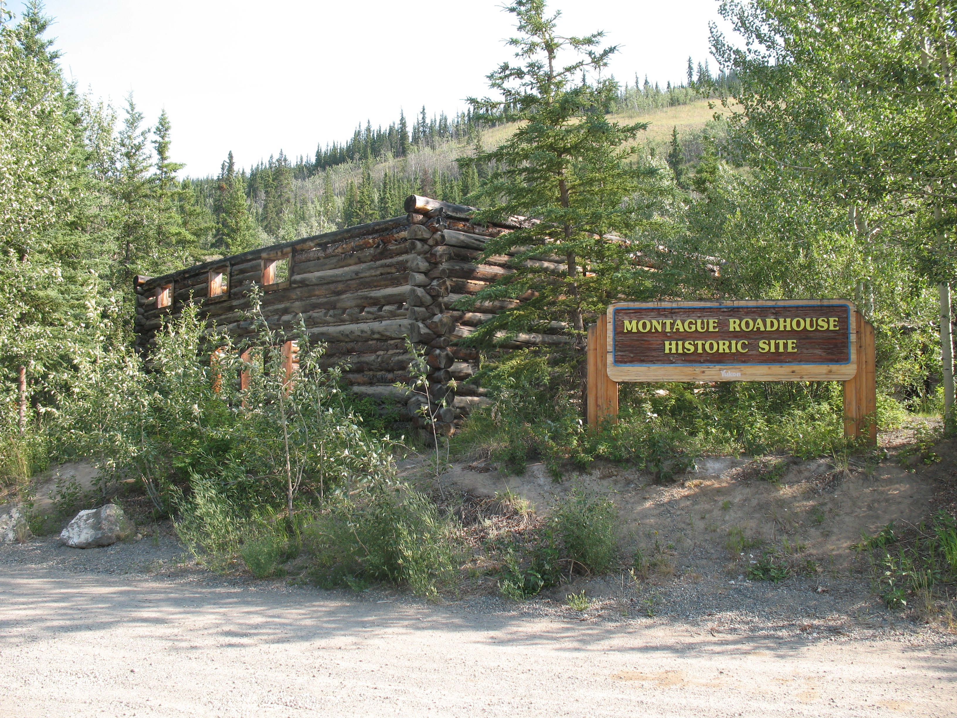 Montague Roadhouse between Dawson and Whitehorse, Yukon